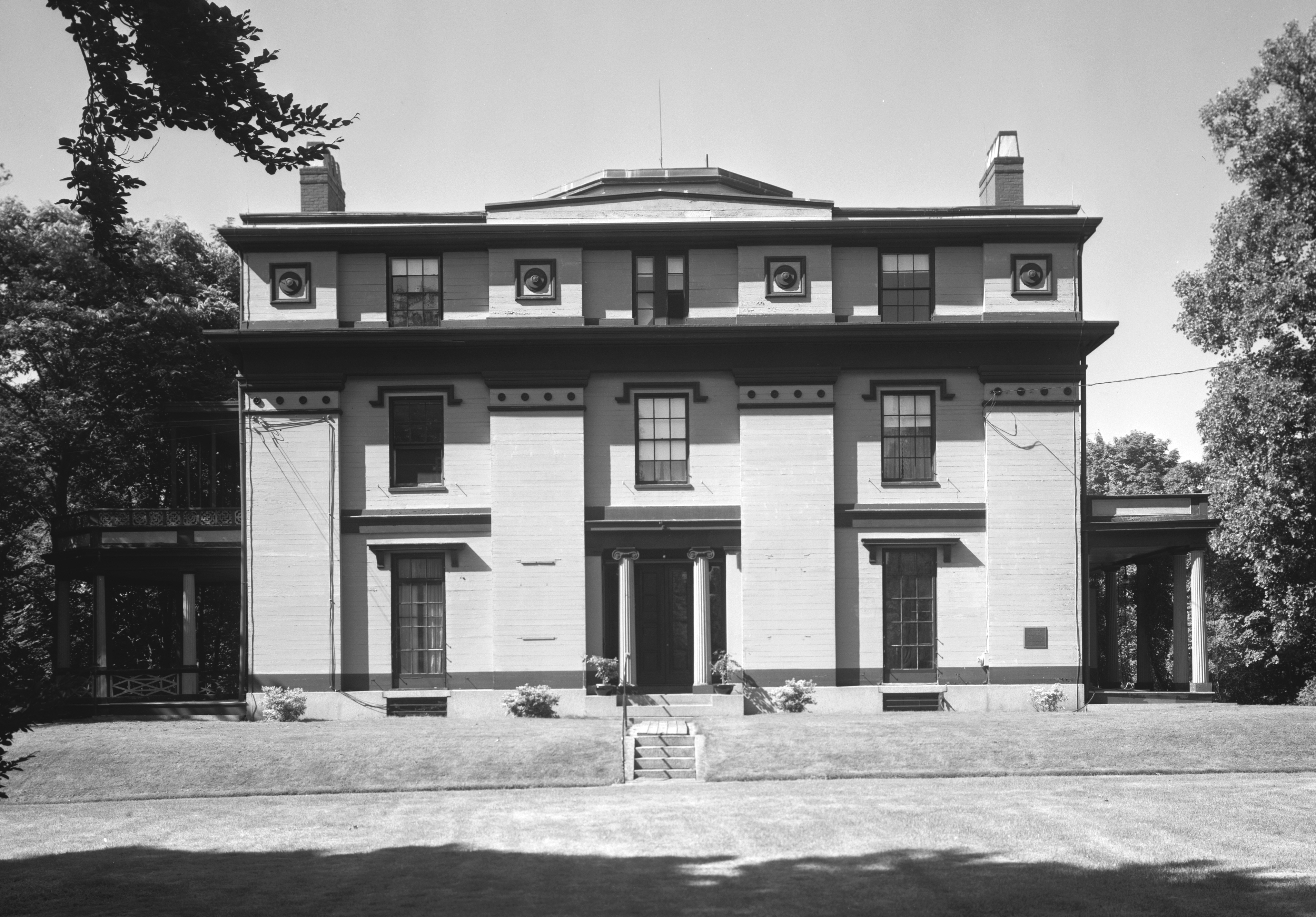 The Captain Robert Bennet Forbes House, 215 Adams Street, Milton, Massachusetts, USA. Photograph of front facade.